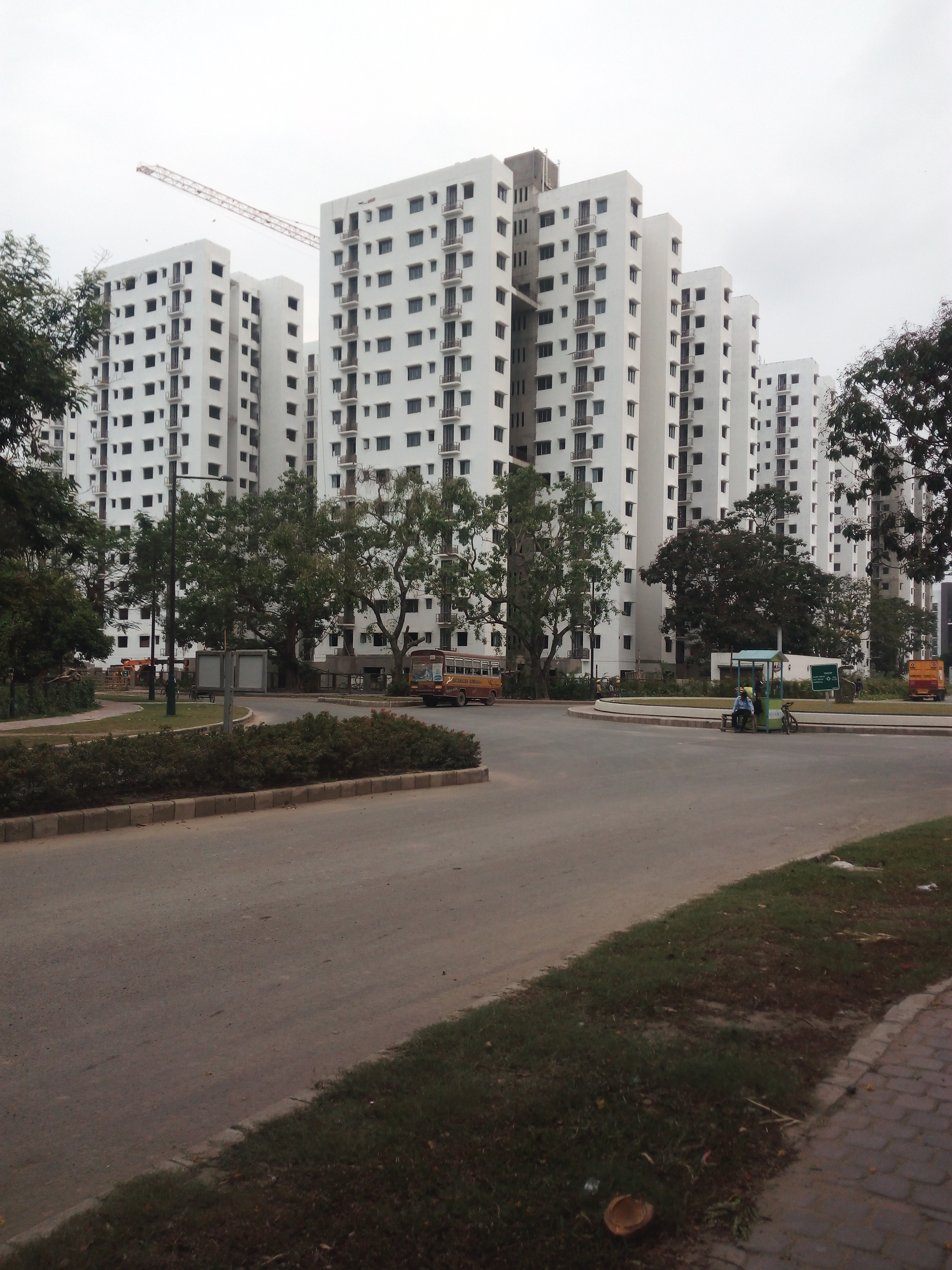 Calcutta Riverside buildings near the river Ganges at Batanagar, Maheshtala, South 24 Parganas, Kolkata.